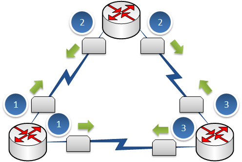 Graphical representation of routing table update process